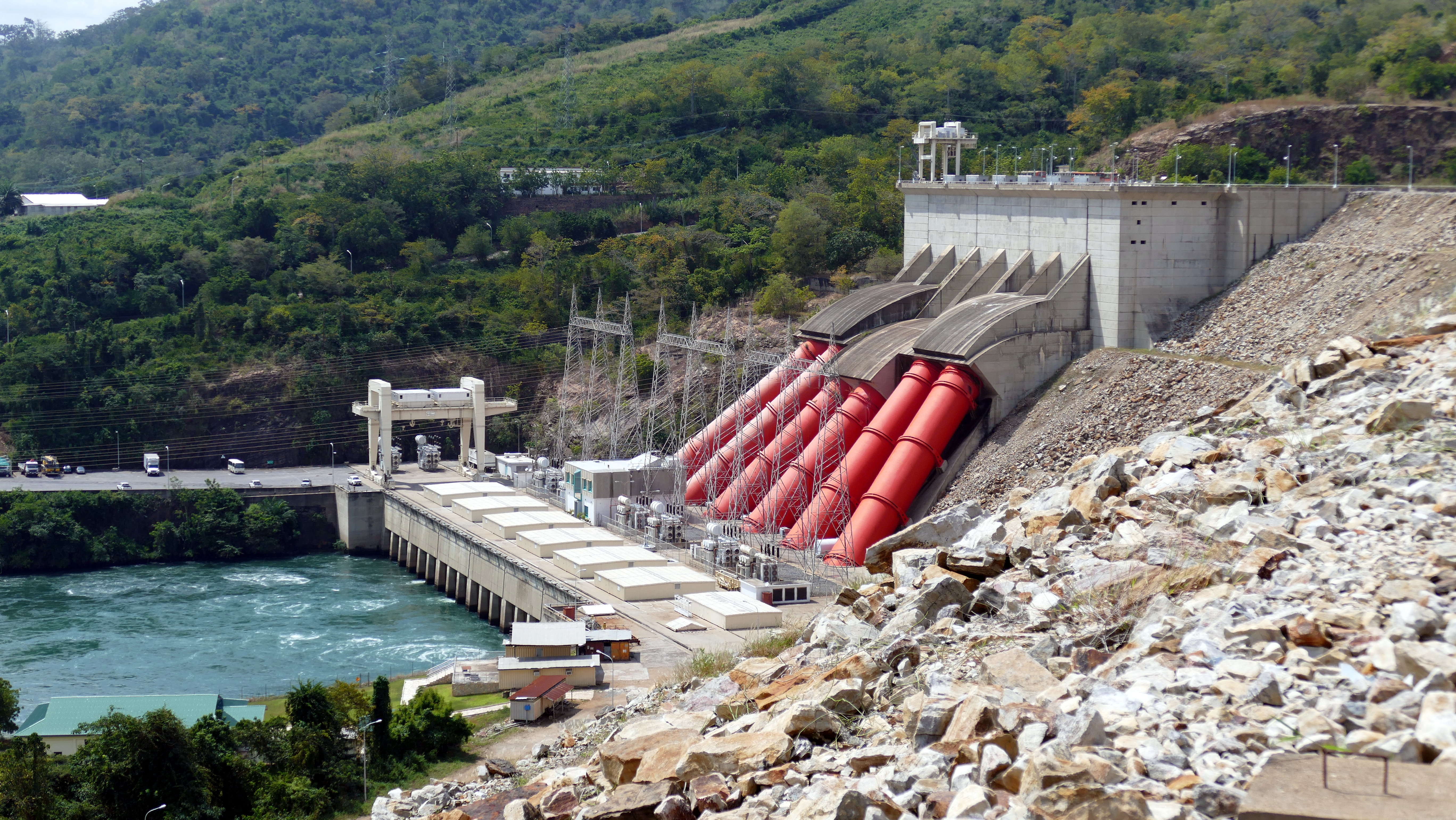 Akosombo Hydropower Station, Ghana